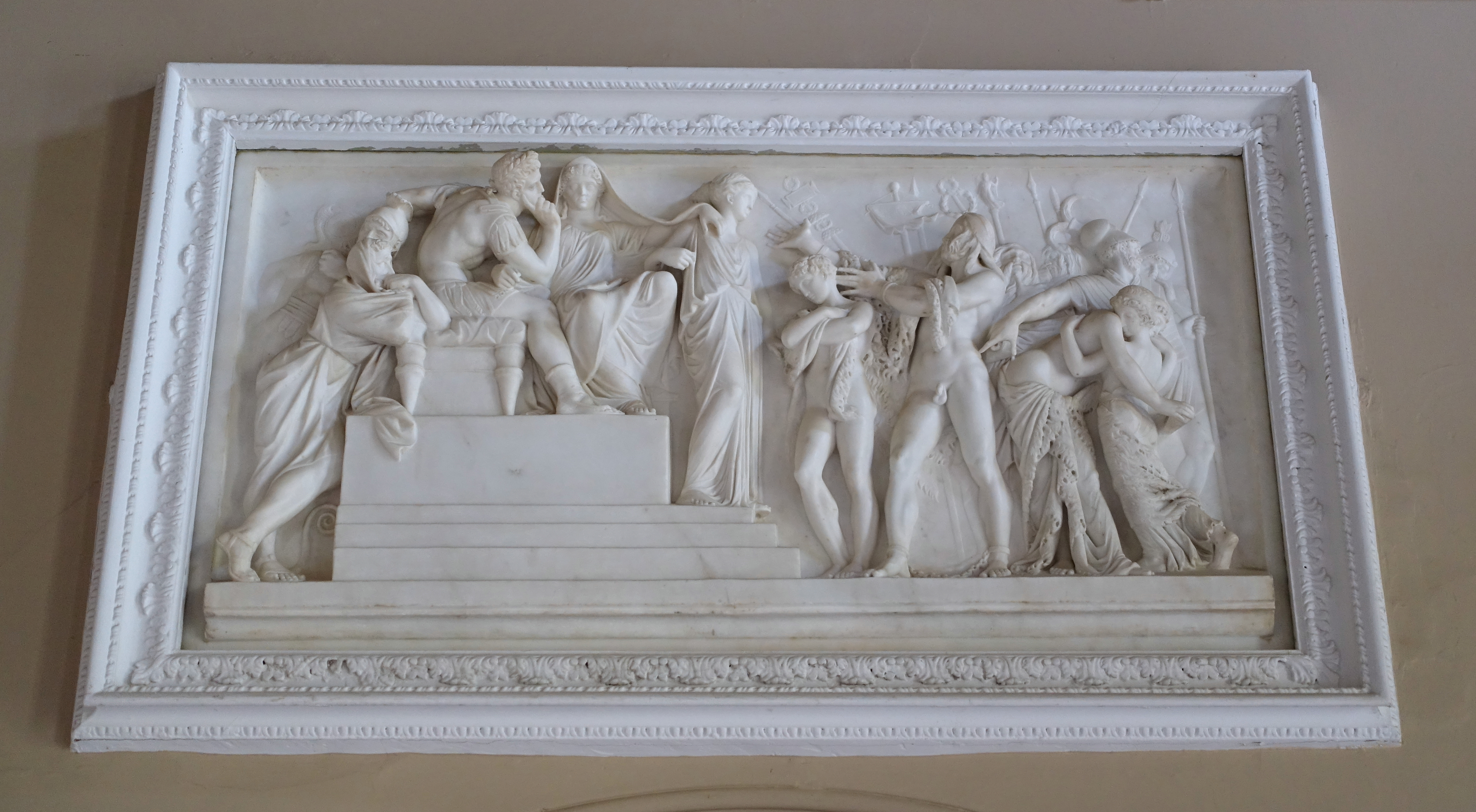 Caractacus Pleading Before the Emperor Claudius in Rome, by Thomas Banks, 1774-1777, marble - Stowe House - Buckinghamshire, England.